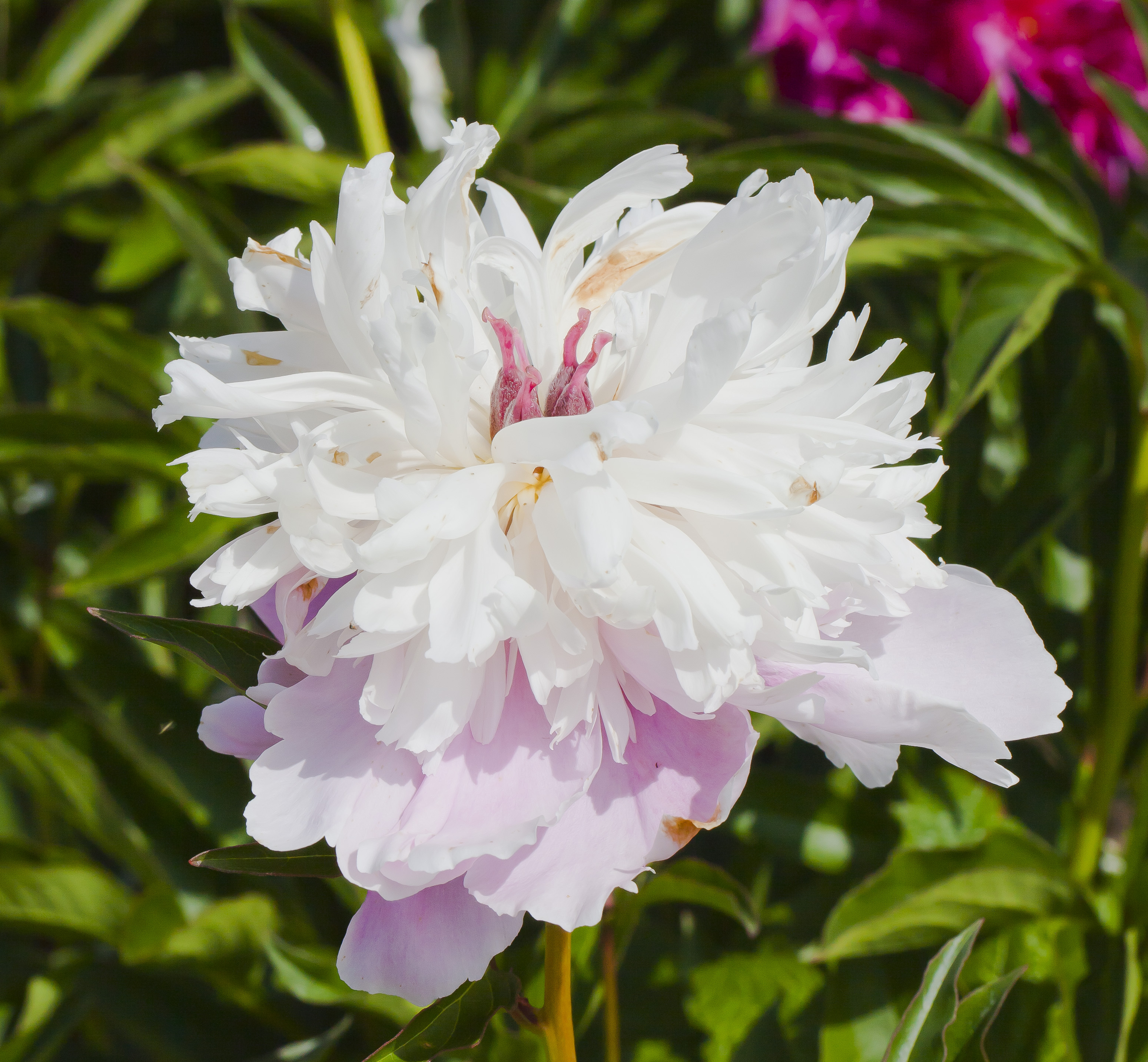 Tree peony (Paeonia suffruticosa), Munich, Germany